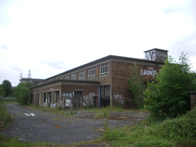 The remains of Huncoat Power Station The only part of the power station now left, and is now used by the local graffiti artist as their canvas.